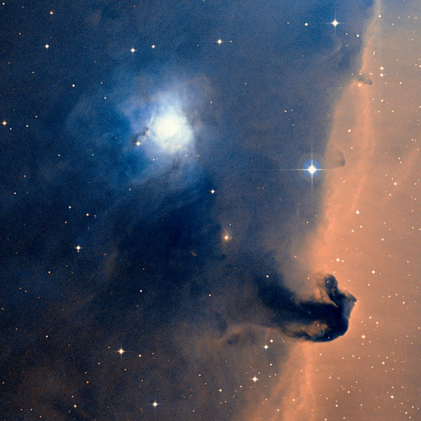 This spectacular visible light wide-field view of part of the famous belt of the great celestial hunter Orion shows the region of the sky around the Flame Nebula. The whole image is filled with glowing gas clouds illuminated by hot blue young stars. It was created from photographs in red and blue light forming part of the Digitized Sky Survey 2. The field of view is approximately three degrees.